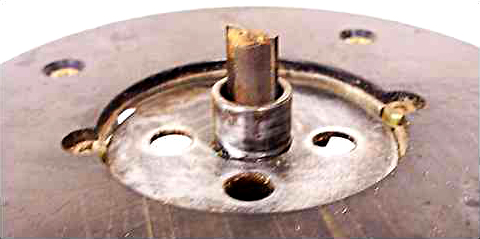 Photograph by Bill Bradley. Feel free to use it, just credit me as the photographer. You can contact me through my website my website billbeee 19:35, 21 March 2007 (UTC)